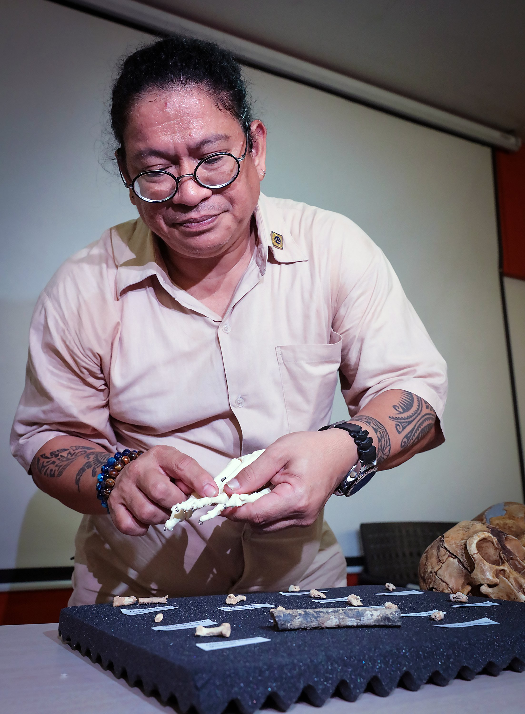 Armand Salvador Mijares presenting the newly-discovered specie of Homo luzonensis